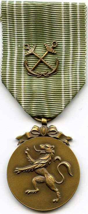 Maritime Medal 1940-45 (Belgium)